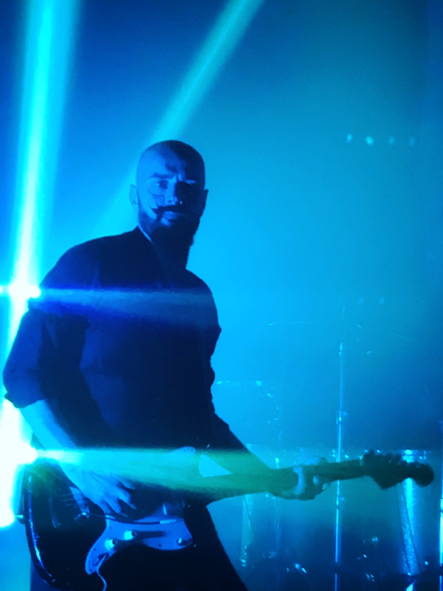 Mika Vandborg with Love Shop 5 April 2019